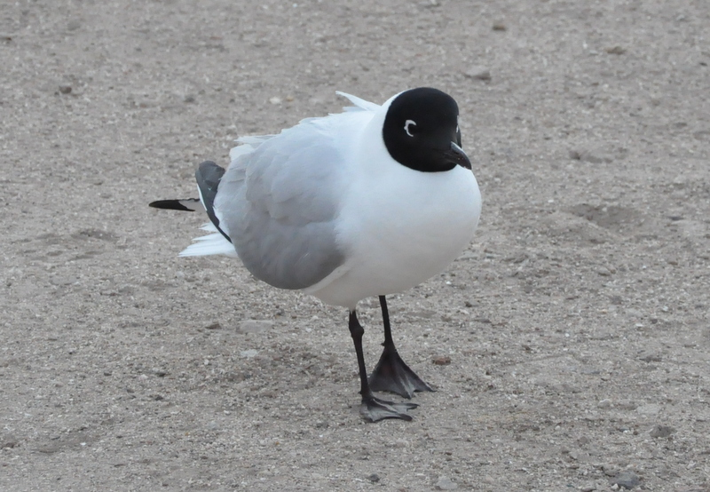 Andean Gull Chroicocephalus serranus, near Tatio geysers field, Antofagasta Region, Chile